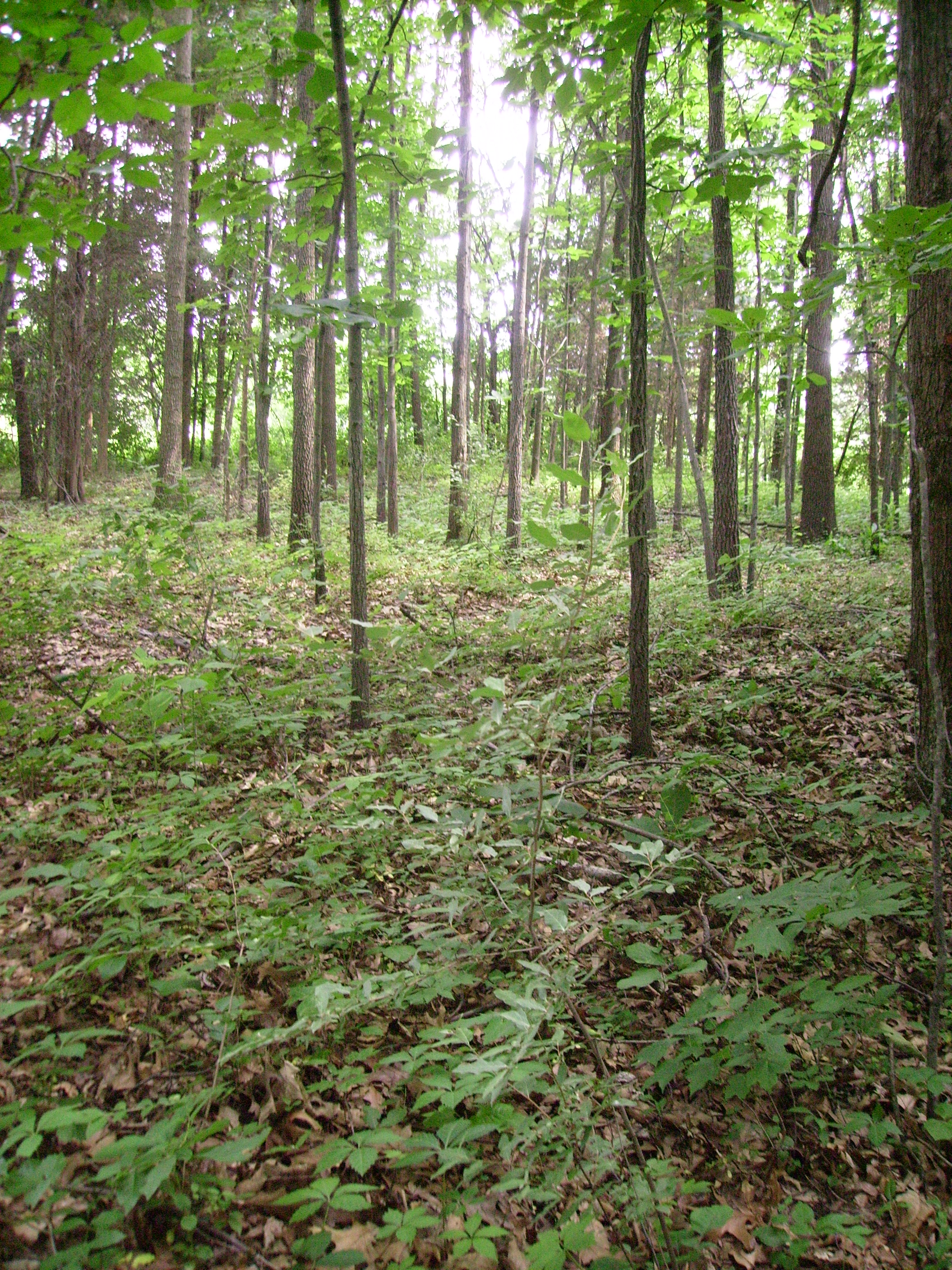 Miami Whitewater Forest, Forest Shot, Cincinnati OH (Hamilton County)